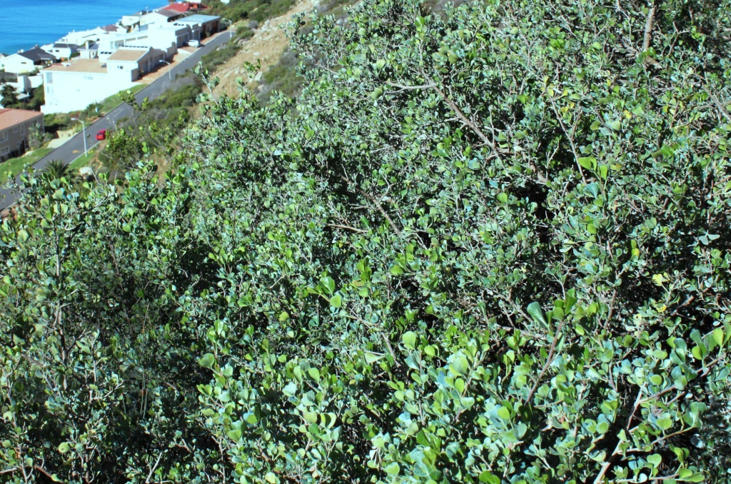 Rhus glauca foliage. Cape Town.